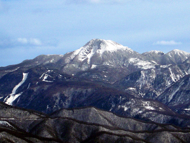 Mount Nikko-Shirane as seen from the west in the border between Gunma & Tochigi Prefectures, Honshu, Japan.